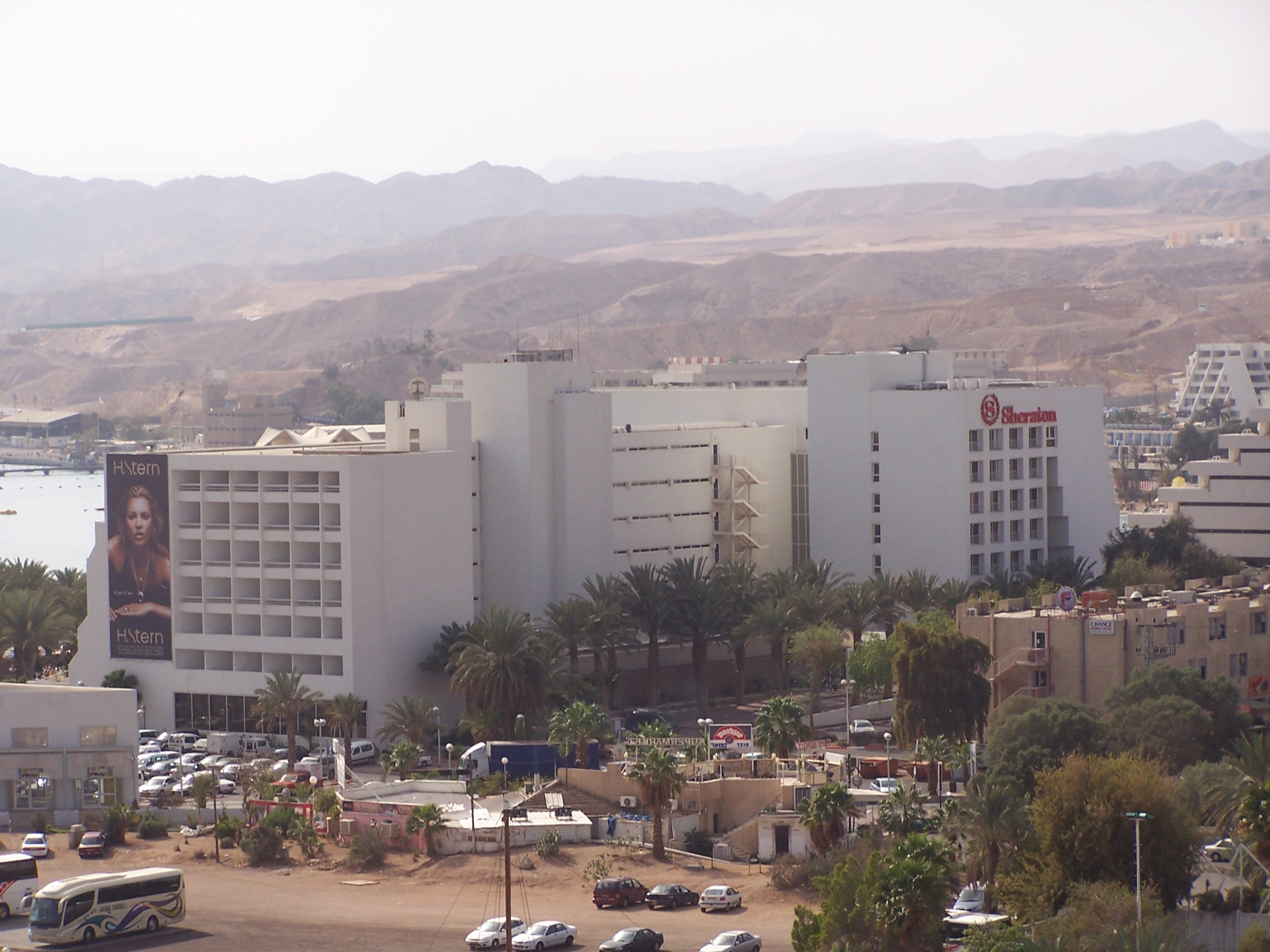 Sheraton Moriah Hotel in Eilat, Israel